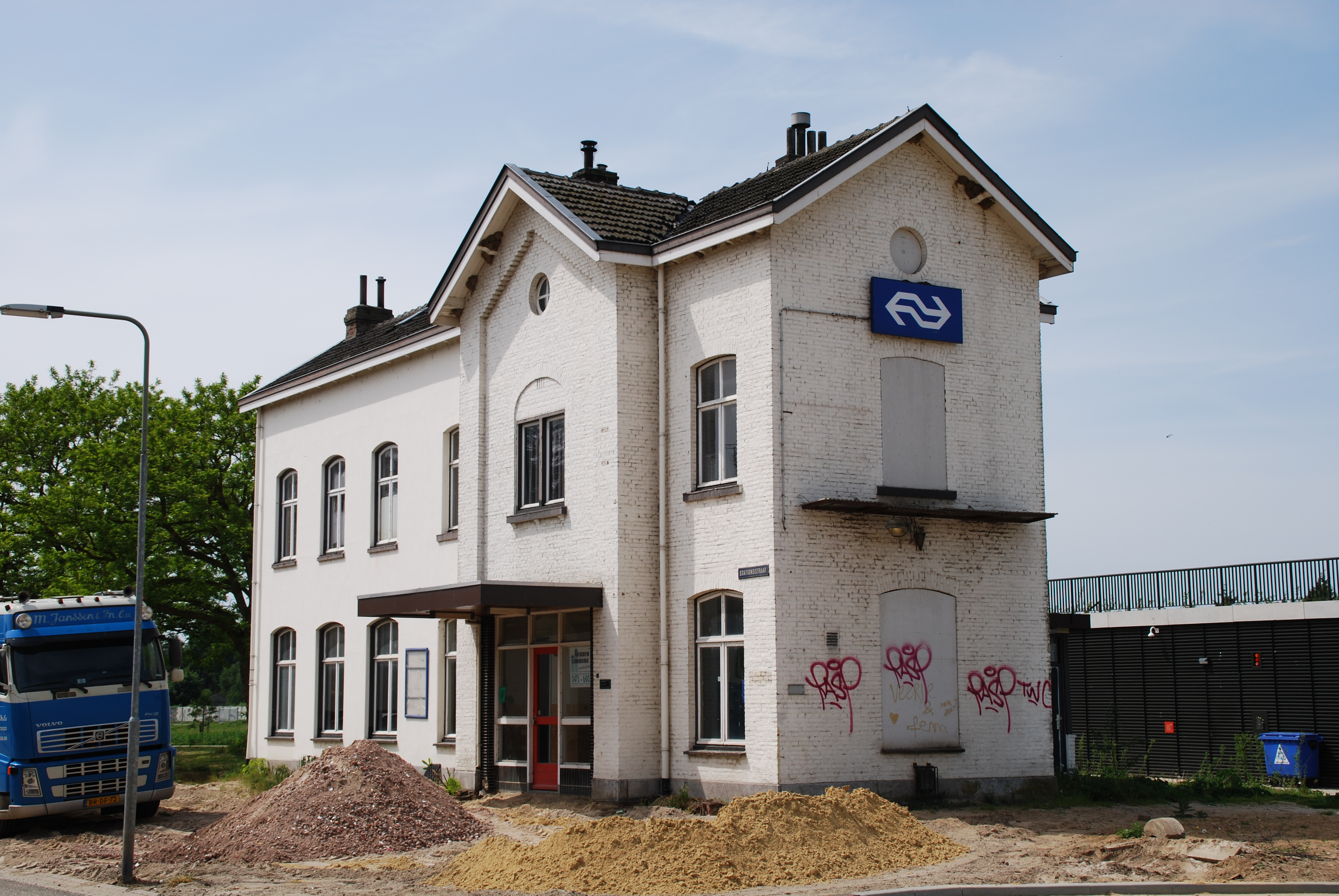 Former Railway Station of Swalmen, the Netherlands